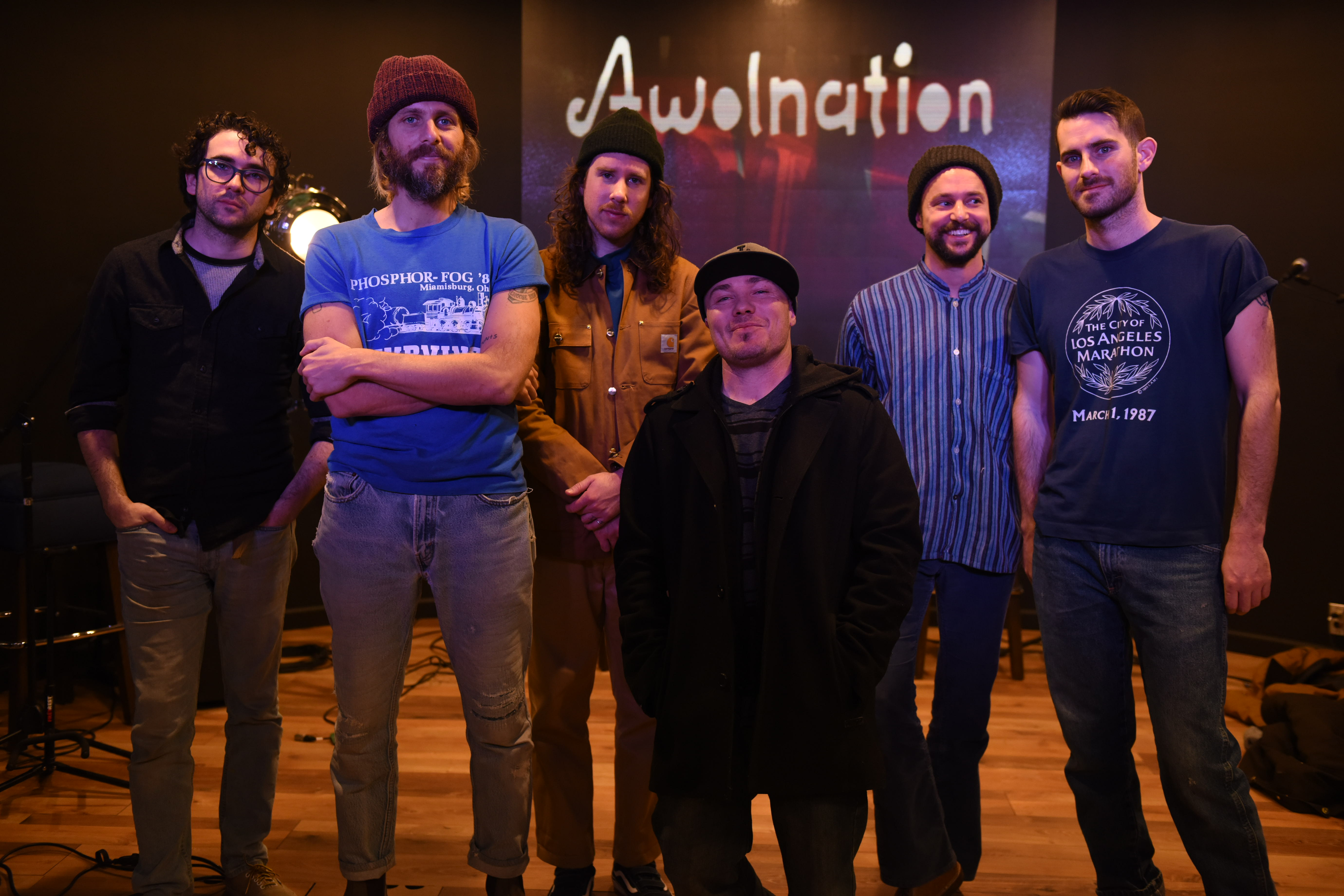 DJ LAM of Self Expression Music with Awolnation for the Friday Turn Up on ALT101.9FM